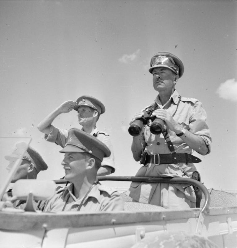 The Campaign in North Africa 1940-1943- Personalities General the Hon Sir Harold Alexander as Commander-in-Chief, Middle East, surveys the battlefront with Major General Harding from an open car.